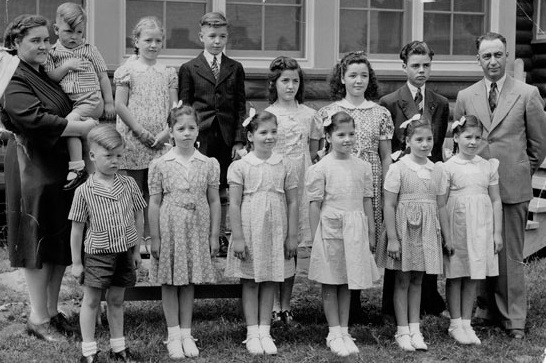 Dionne Family